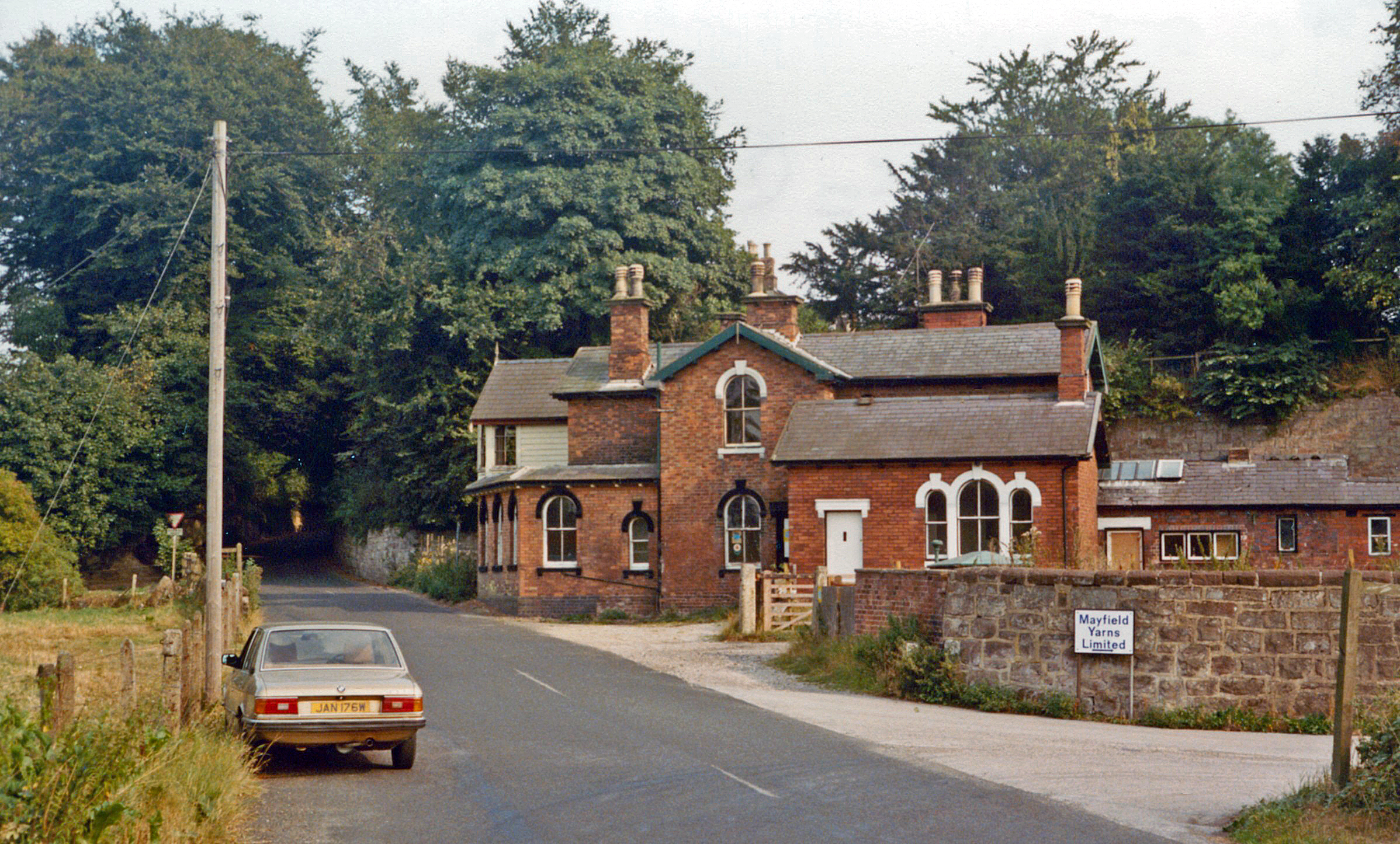 Site of Clifton (for Mayfield) station, 1983. View southward to the former level-crossing of the ex-North Stafford line, Uttoxeter (to right) - Ashbourne (to left). The station and the line had been closed to passengers 1/11/54, but goods traffic lasted until 7/10/63